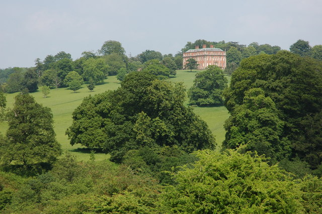 Mawley Hall Mawley stands on high ground to the east of Cleobury Mortimer, here it is viewed from the south-west.